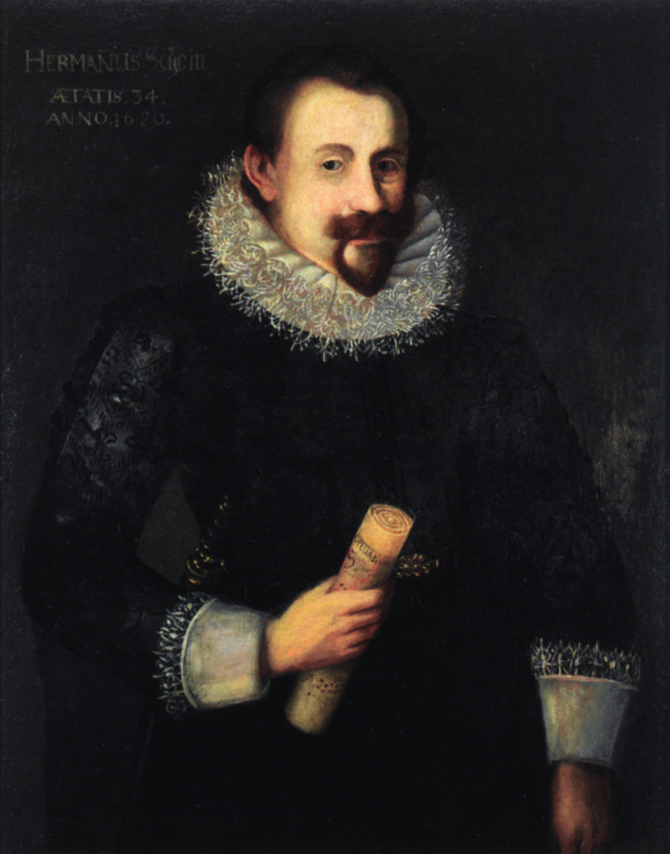 Depicted person: Johann Hermann Schein